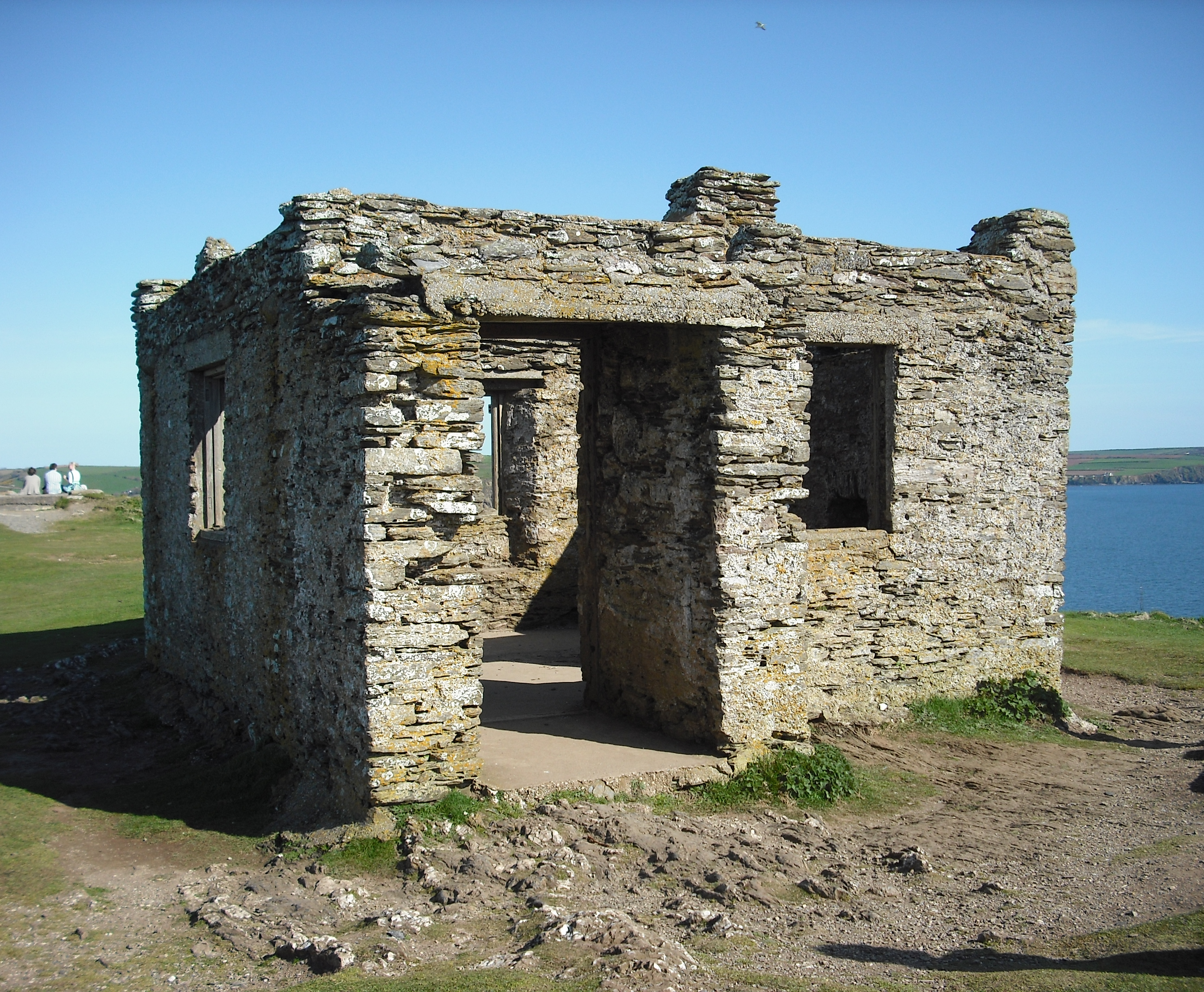 Photograph of the hew and cry hut on Burgh Island, England.